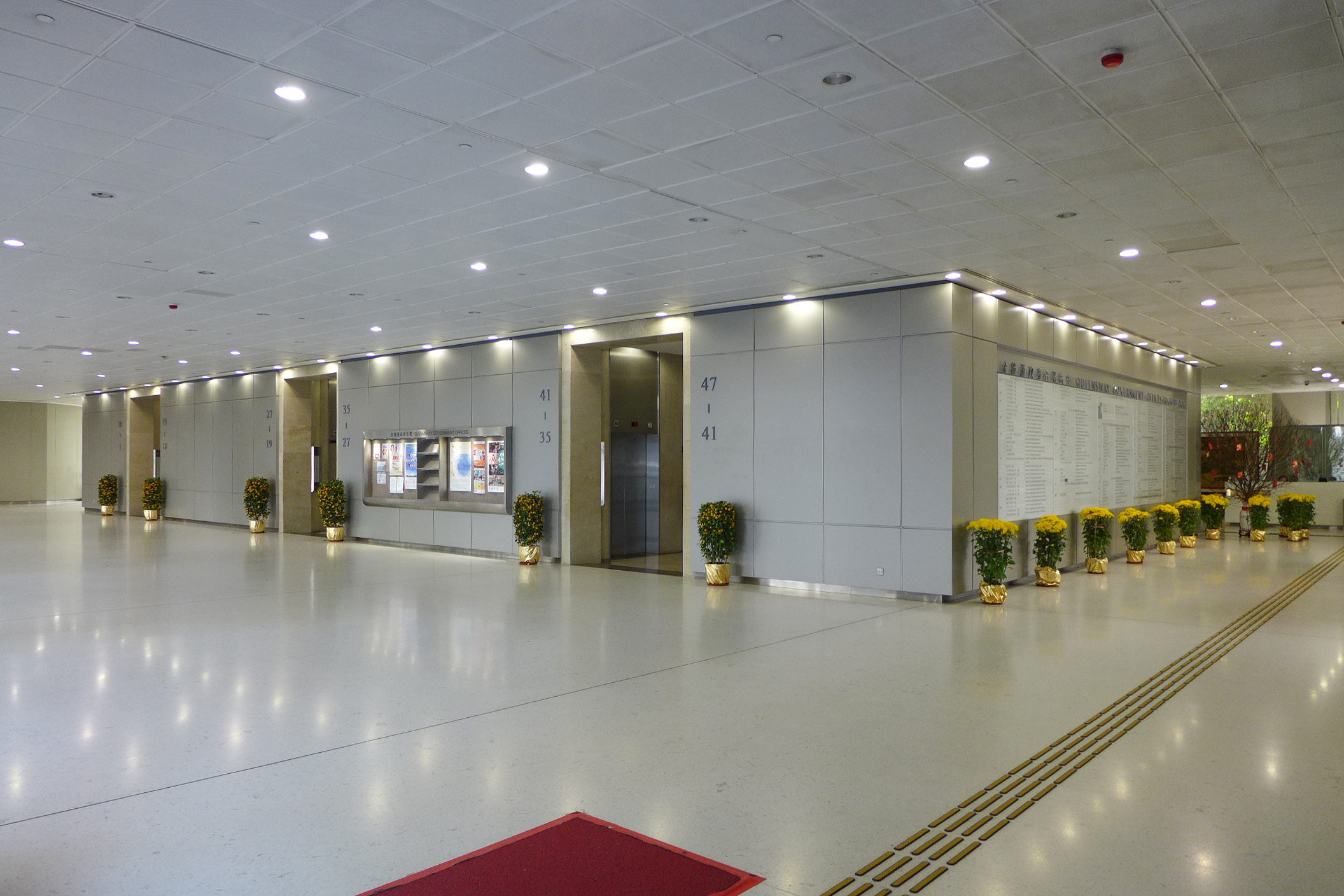 Queensway Government Offices Lobby